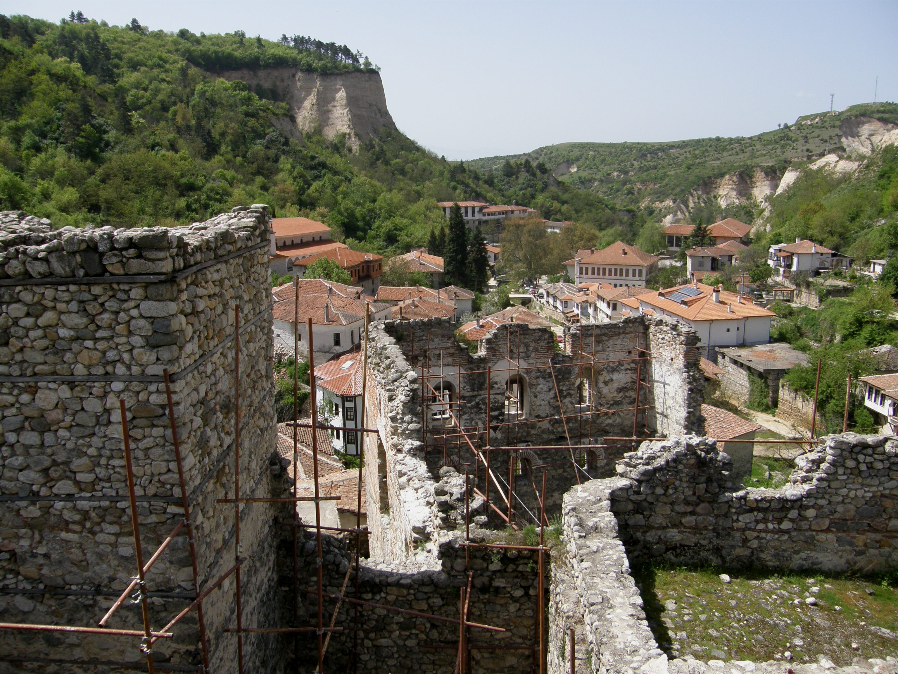 The "Byzantine House" at Melnik. It was built between 12 and 13th century. The 'Byzantine House' at Melnik (Meleniko)